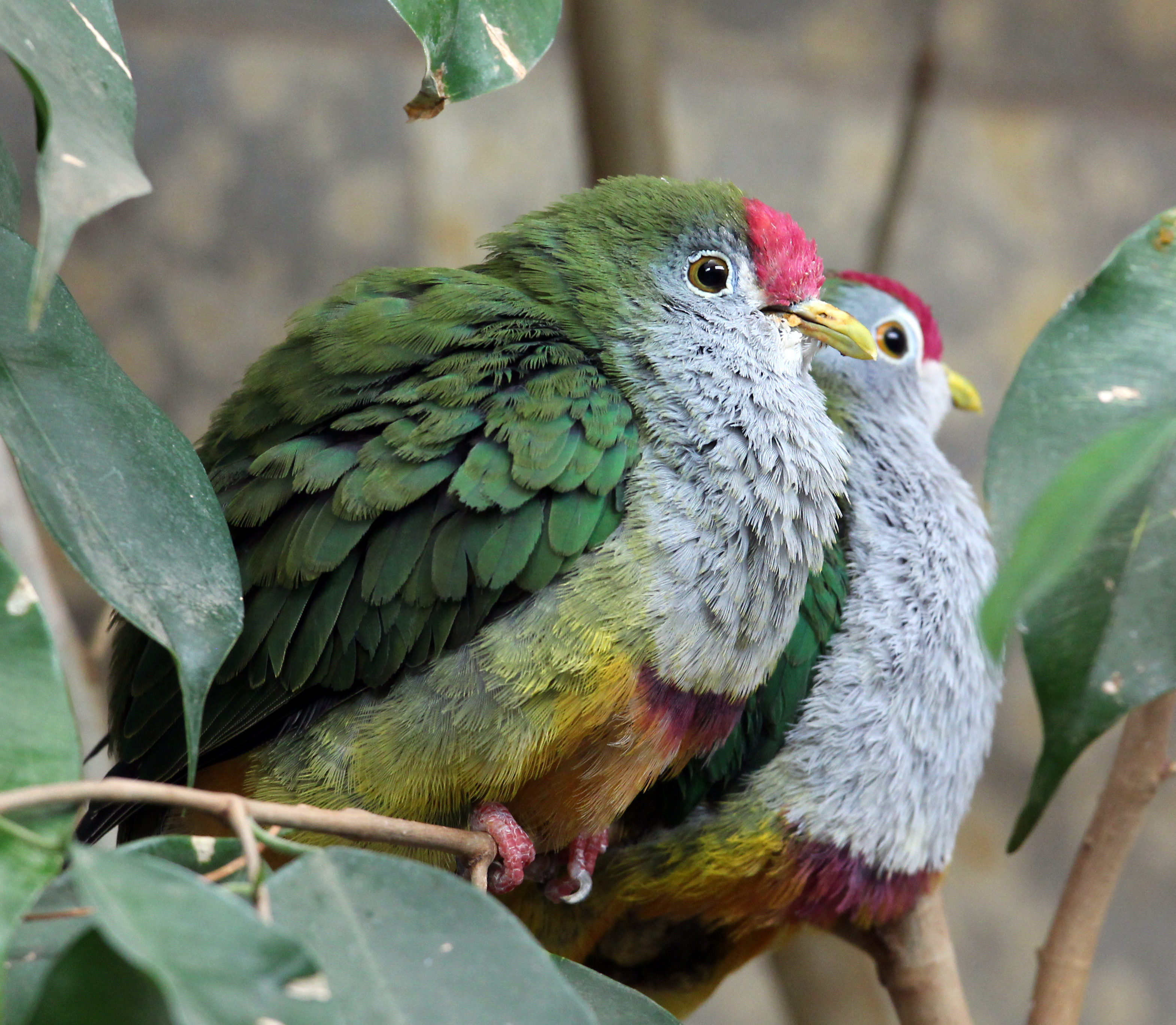 Two beautiful fruit doves (Ptilinopus pulchellus)